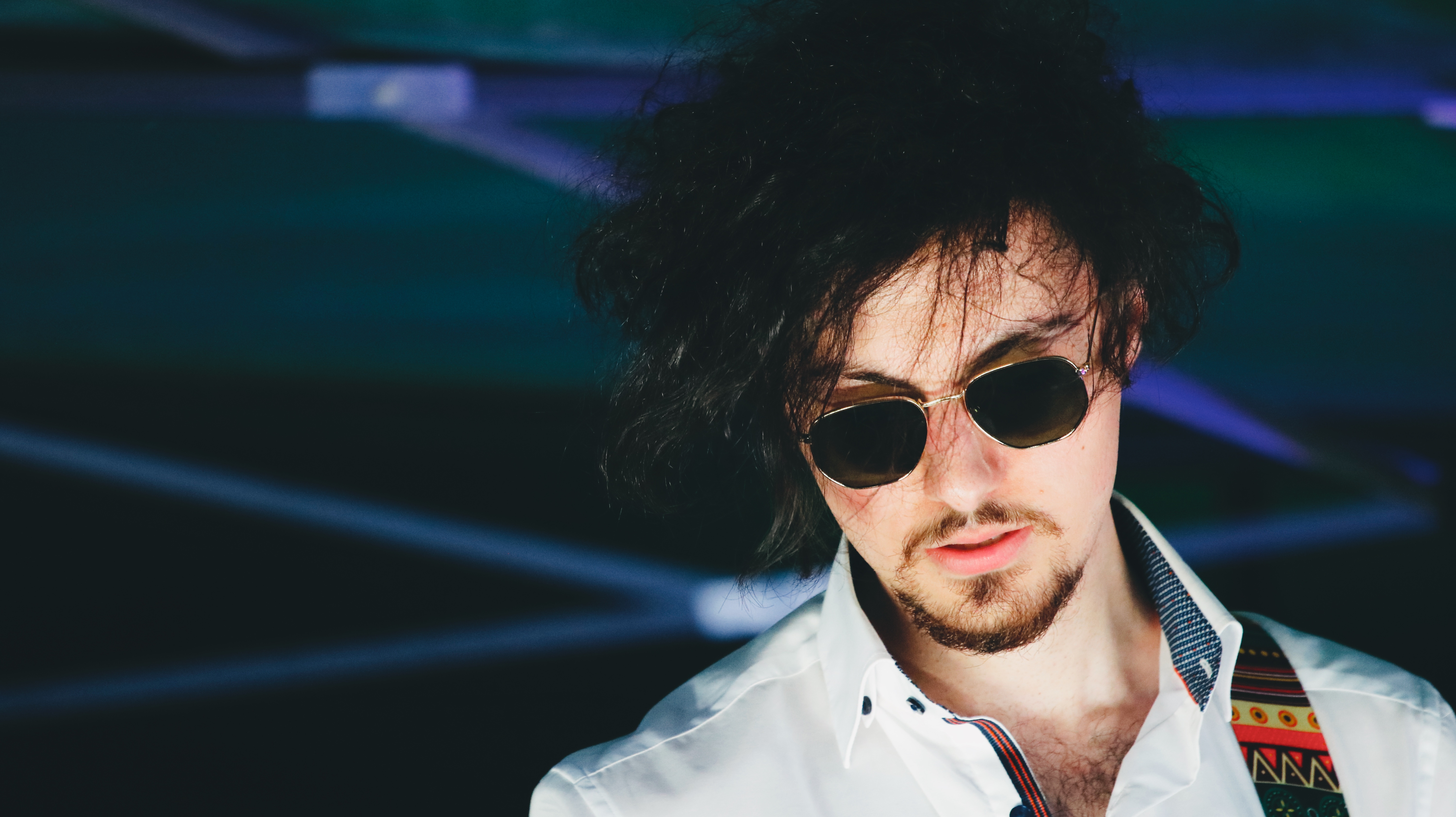 Van Yeghiazaryan ( Nemra band's concert held in Ejmiatsin )